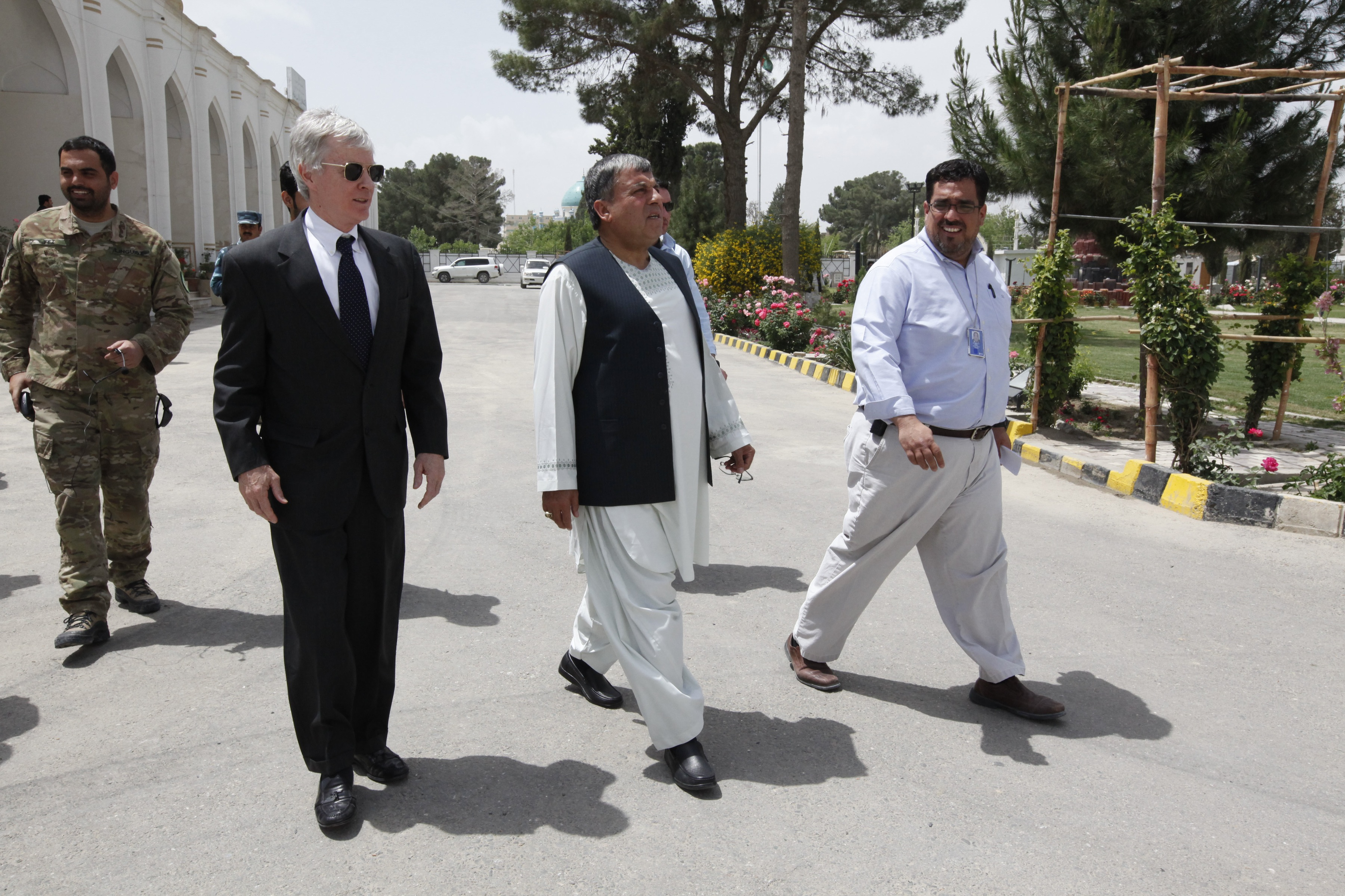 Kandahar Governor Tooryalai Wesa and Ambassador Ryan Crocker walk the grounds of the governor's palace on 23 April 2012 in Kandahar.